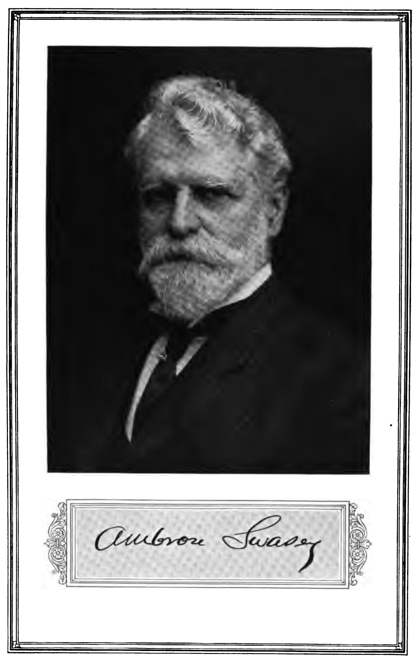 Portrait of Ambrose Swasey.